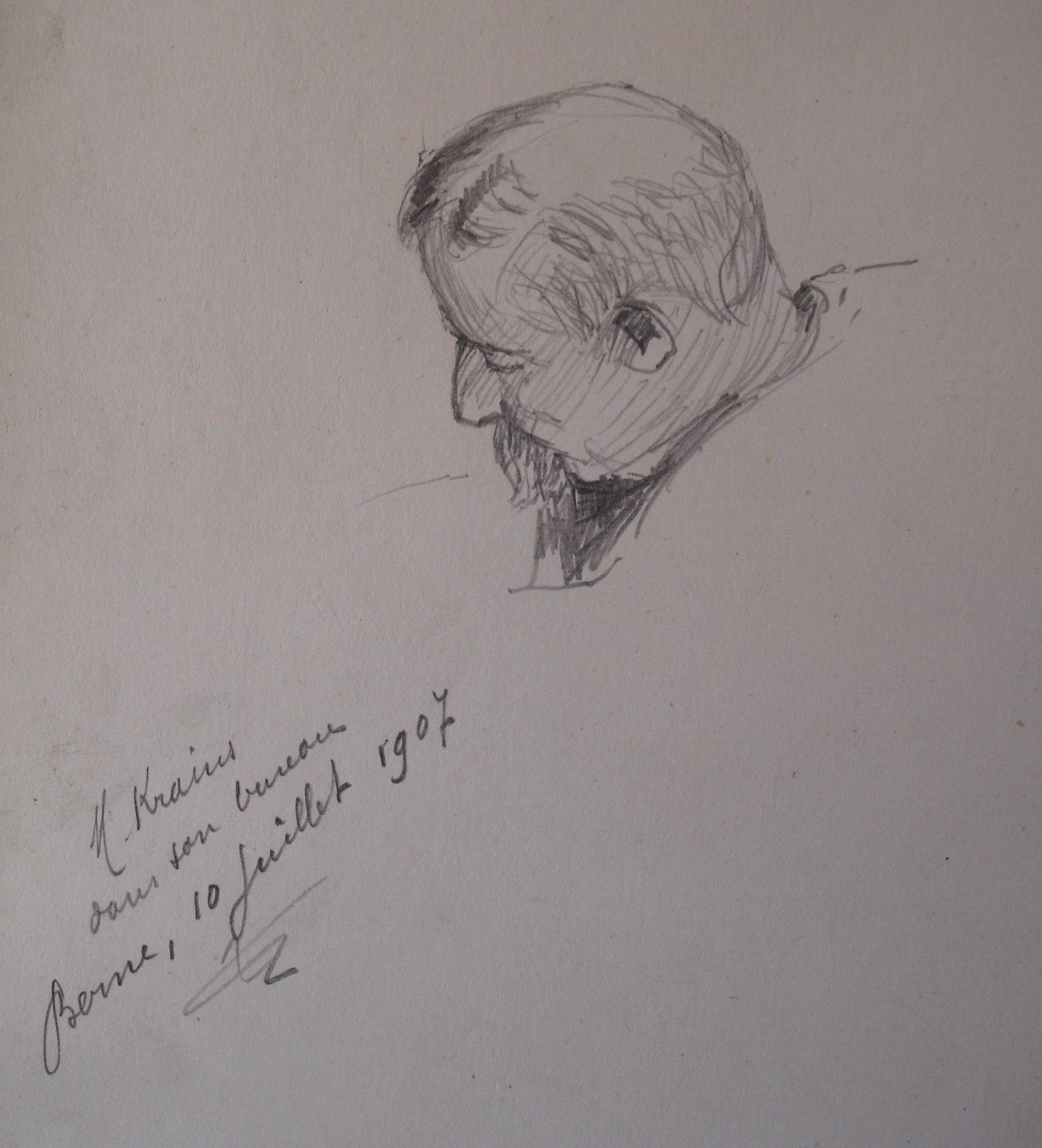 Hubert Krains in his office in Bern by Georges Emile Lebacq.